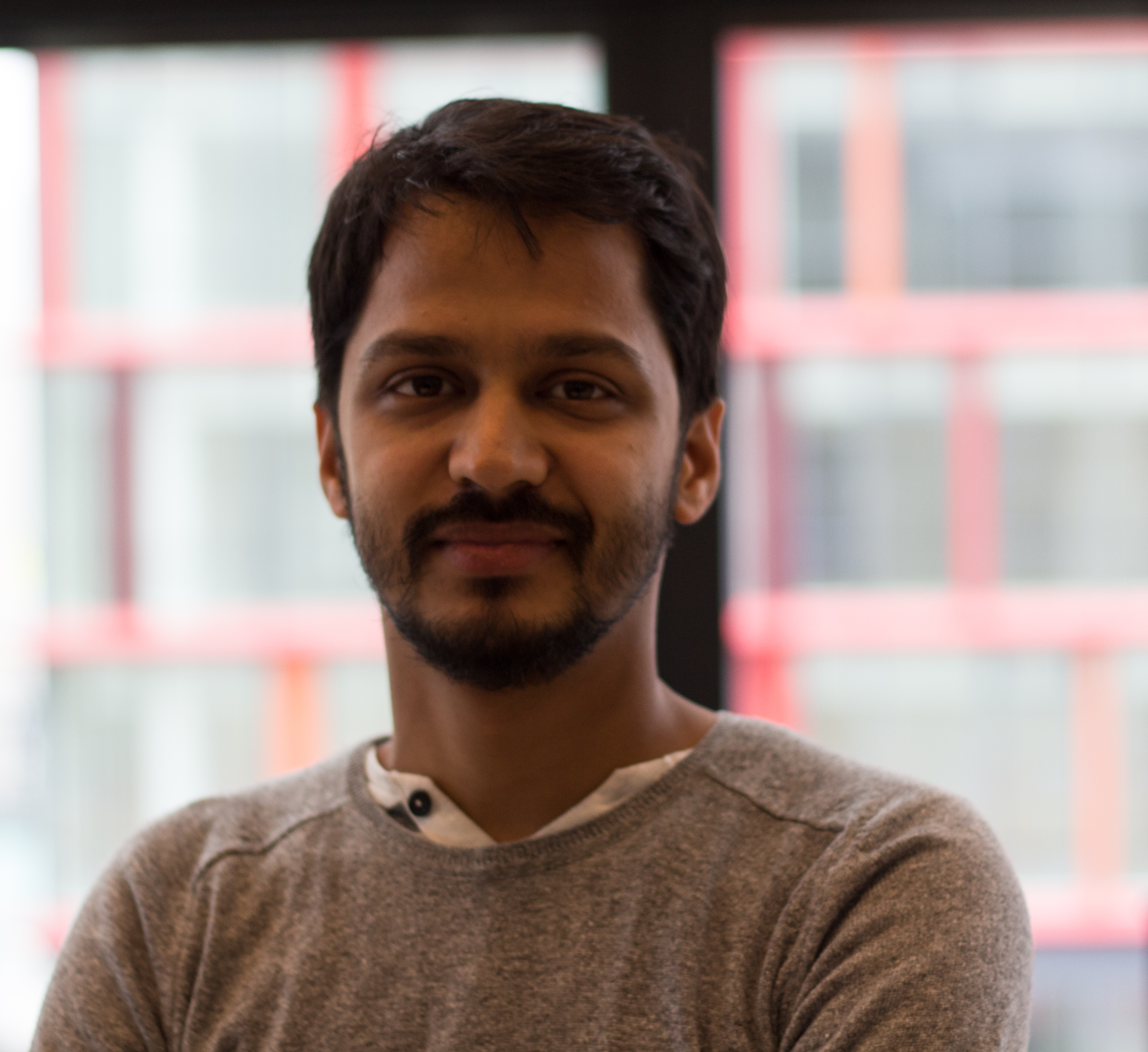 Shrihari Sathe, Infinitum Productions, at the International Film Festival Rotterdam